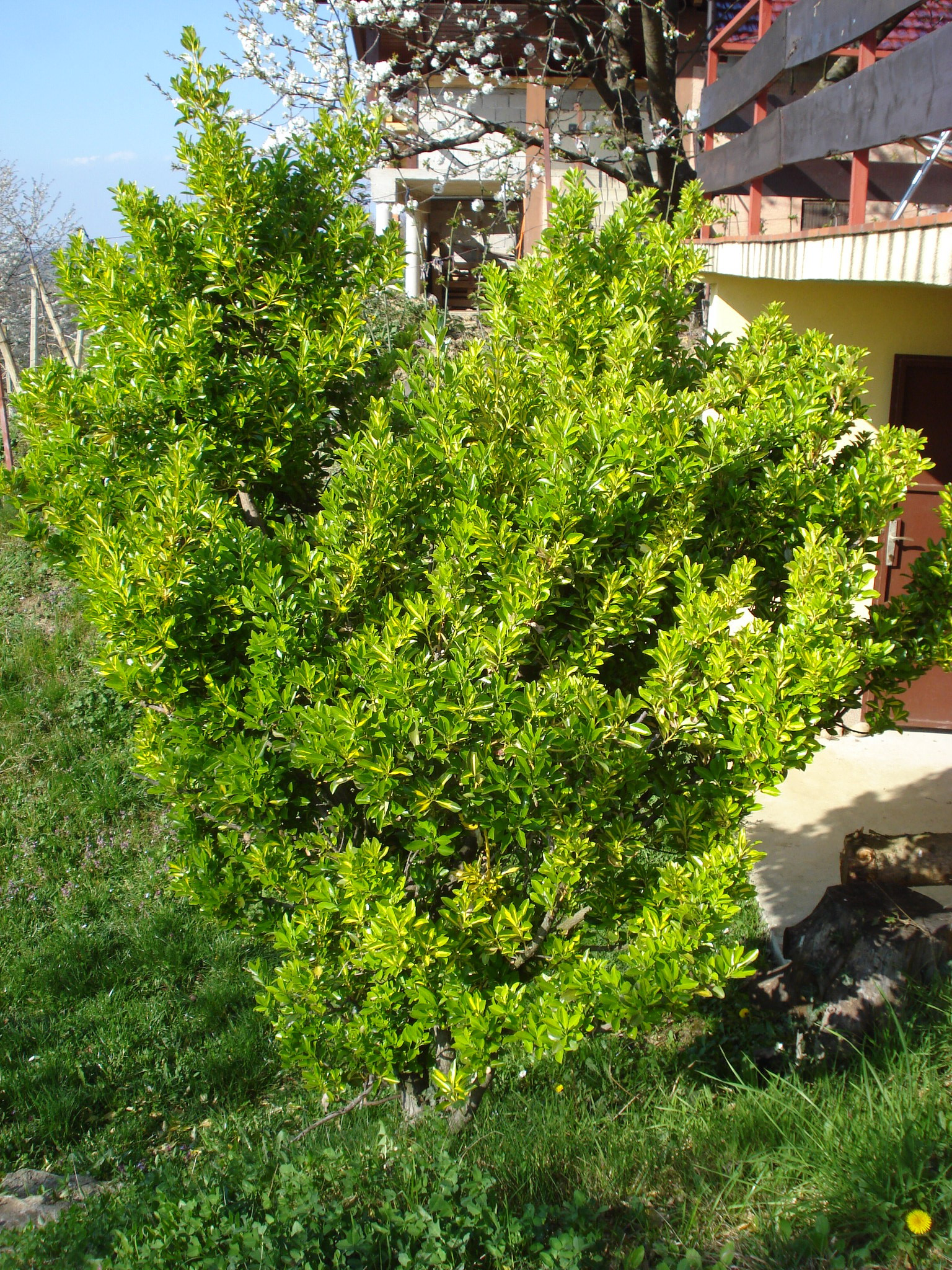 Euonymus japonicus shrub in early springtime (Međimurje County, Croatia)